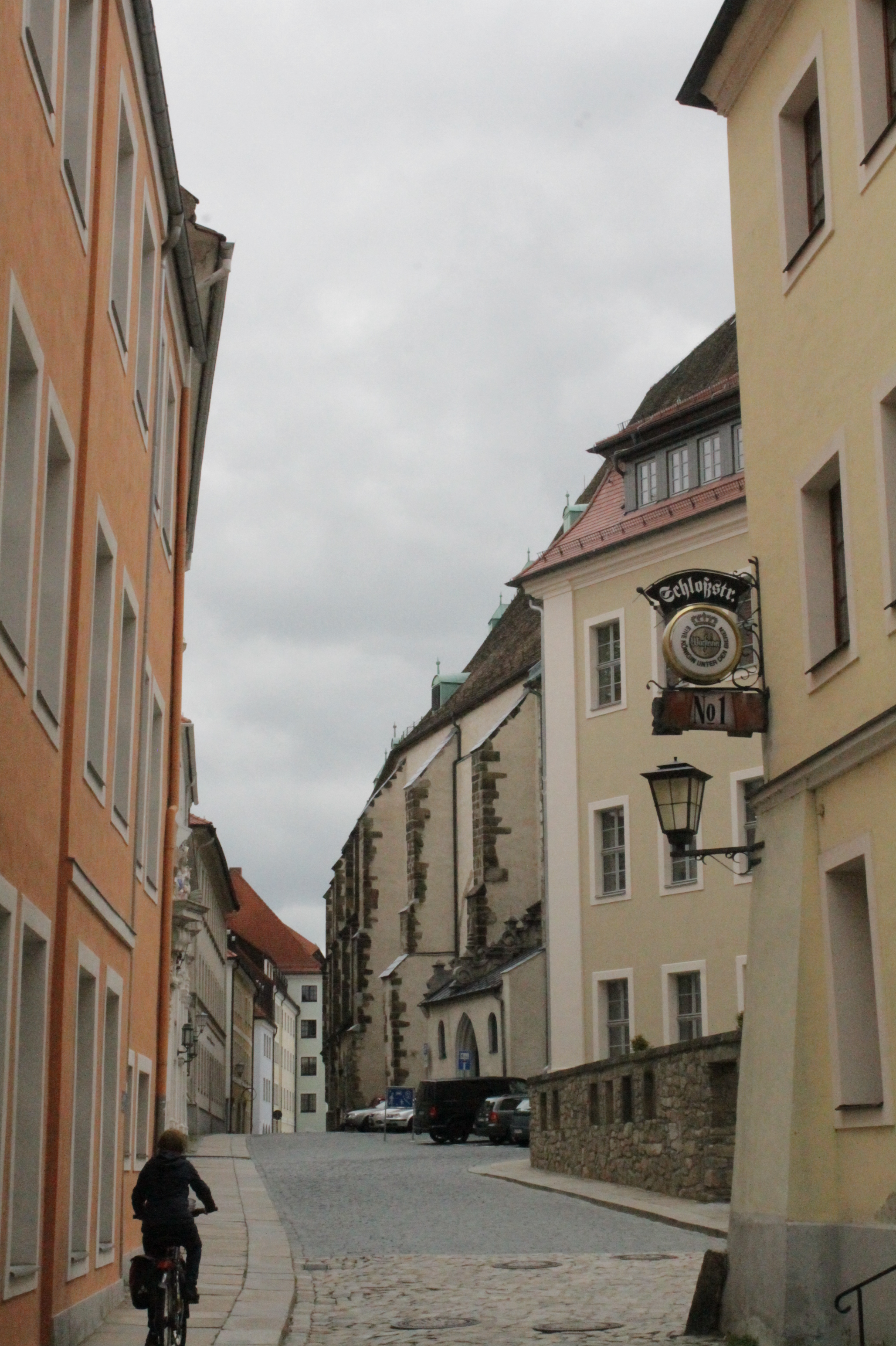 An der Petrikirche, Bautzen